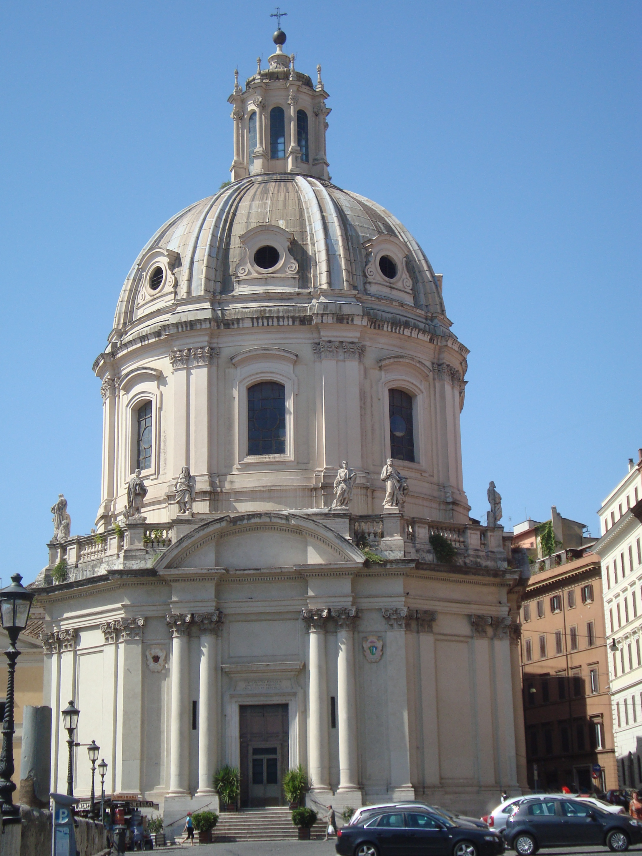 Church Santissimo Nome di Maria al Foro Traiano